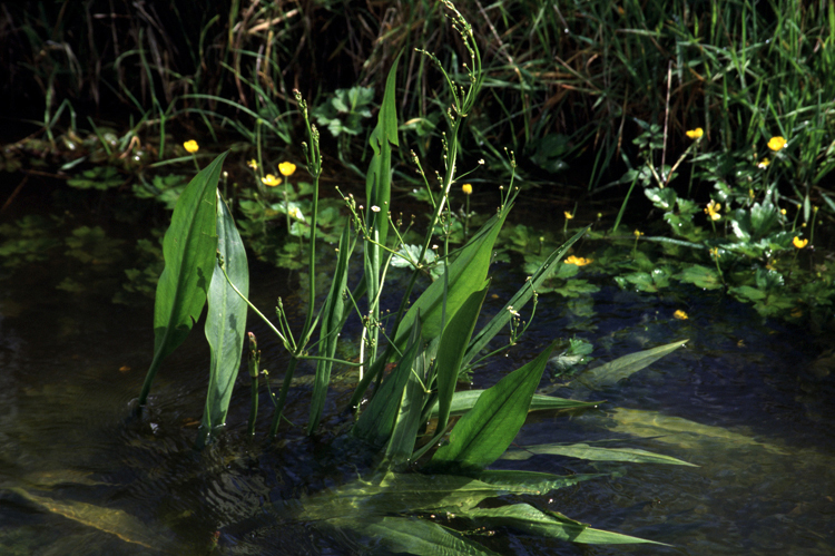 Alisma lanceolatum — Narrow leaved water plantain. At the Humboldt Bay National Wildlife Refuge, Humboldt County, coastal Northern California.